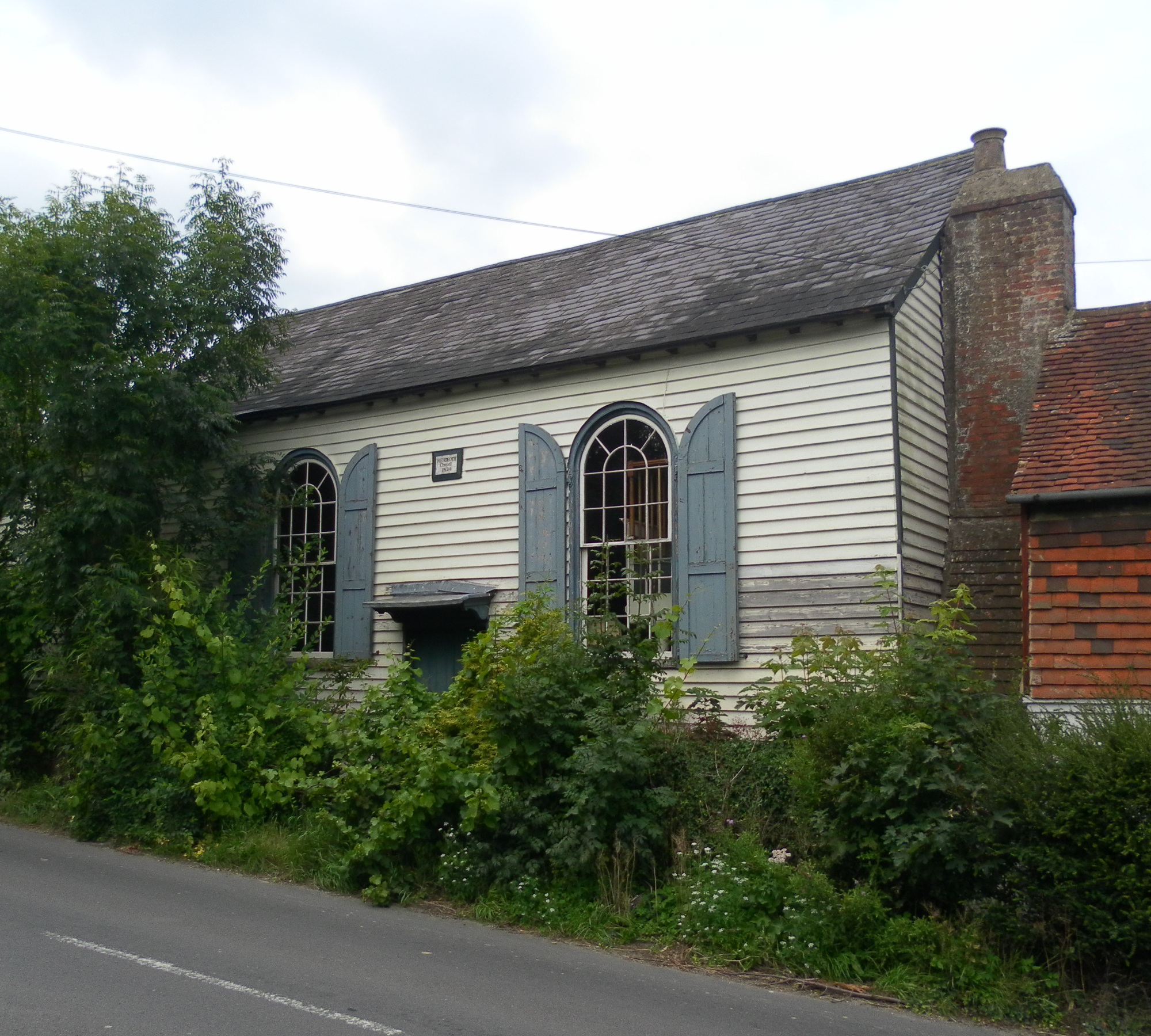 Former Rehoboth Chapel, Pell Green, Wadhurst, Wealden District, East Sussex, England. Built in 1824 for Strict Baptists; now a house. Listed at Grade II by English Heritage (NHLE Code 1353663)